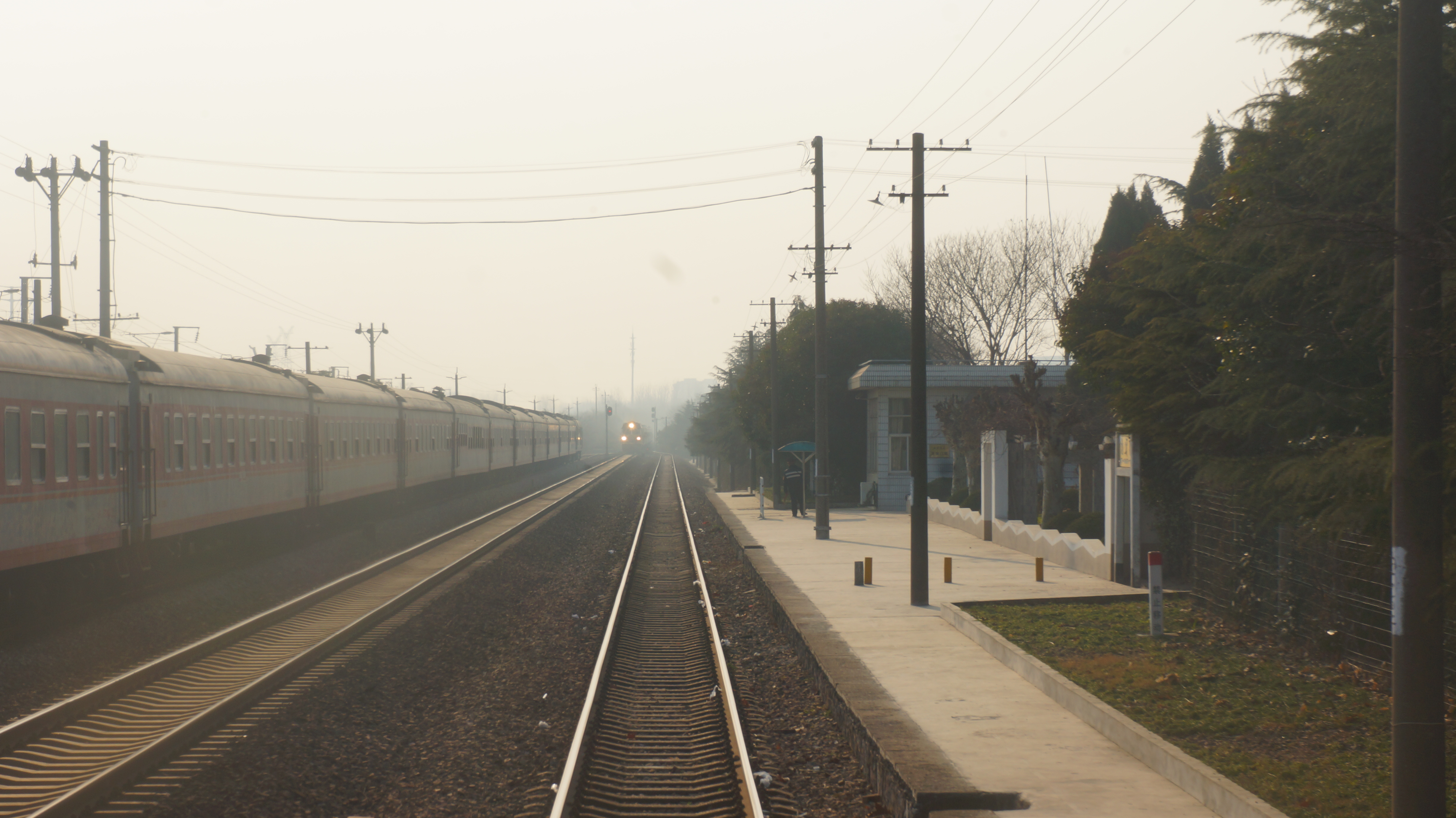 201601 Cangbomen Railway Station